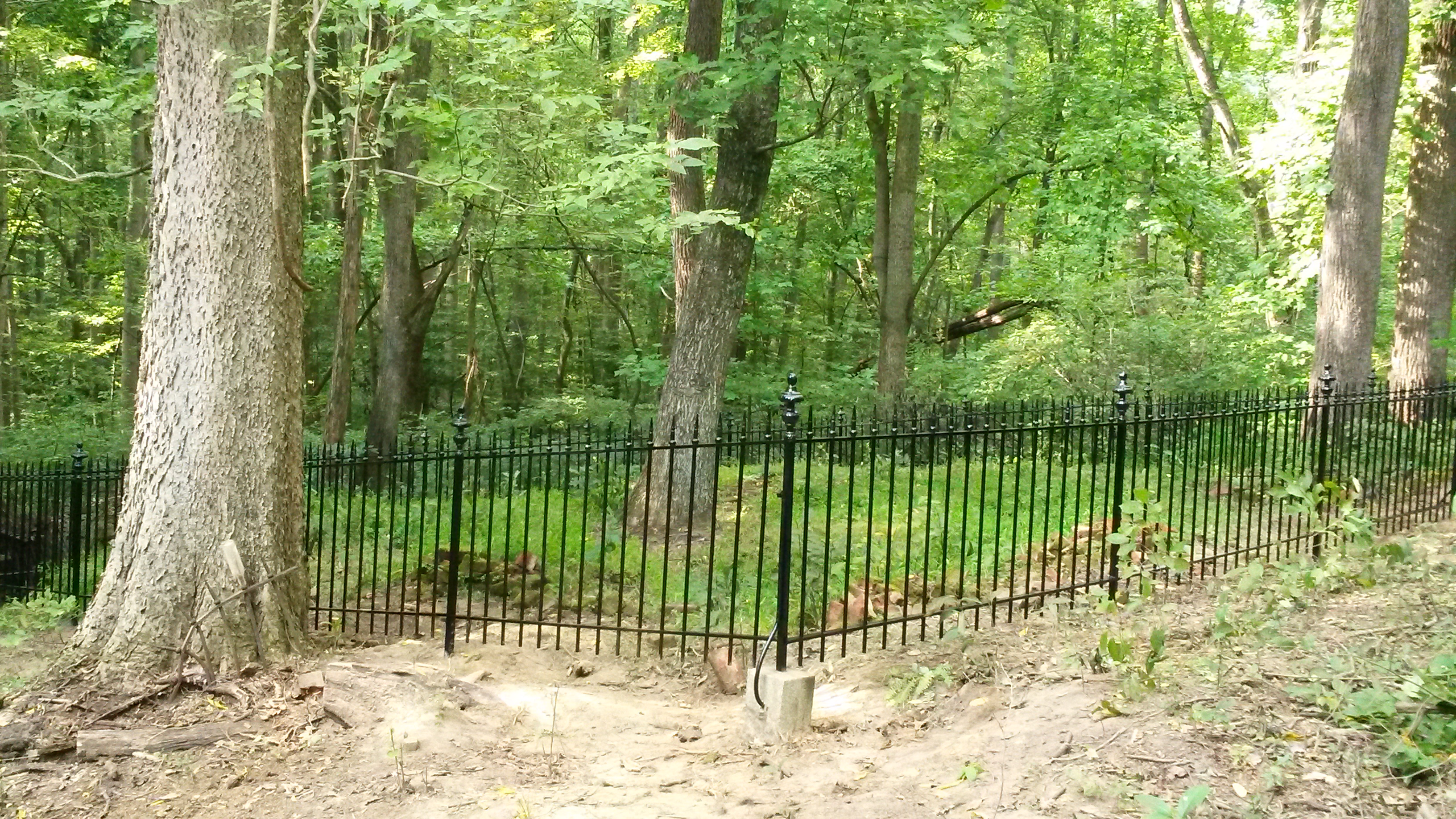 Clagett House at Cool Spring Manor, 17500 Clagett Landing Rd. Upper Marlboro